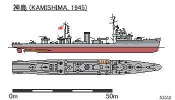 Figure of Japanese minelayer KAMISIMA, 1945.